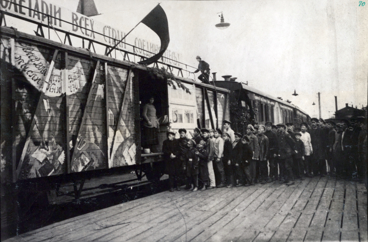 The "Lenin" train of literature and propaganda